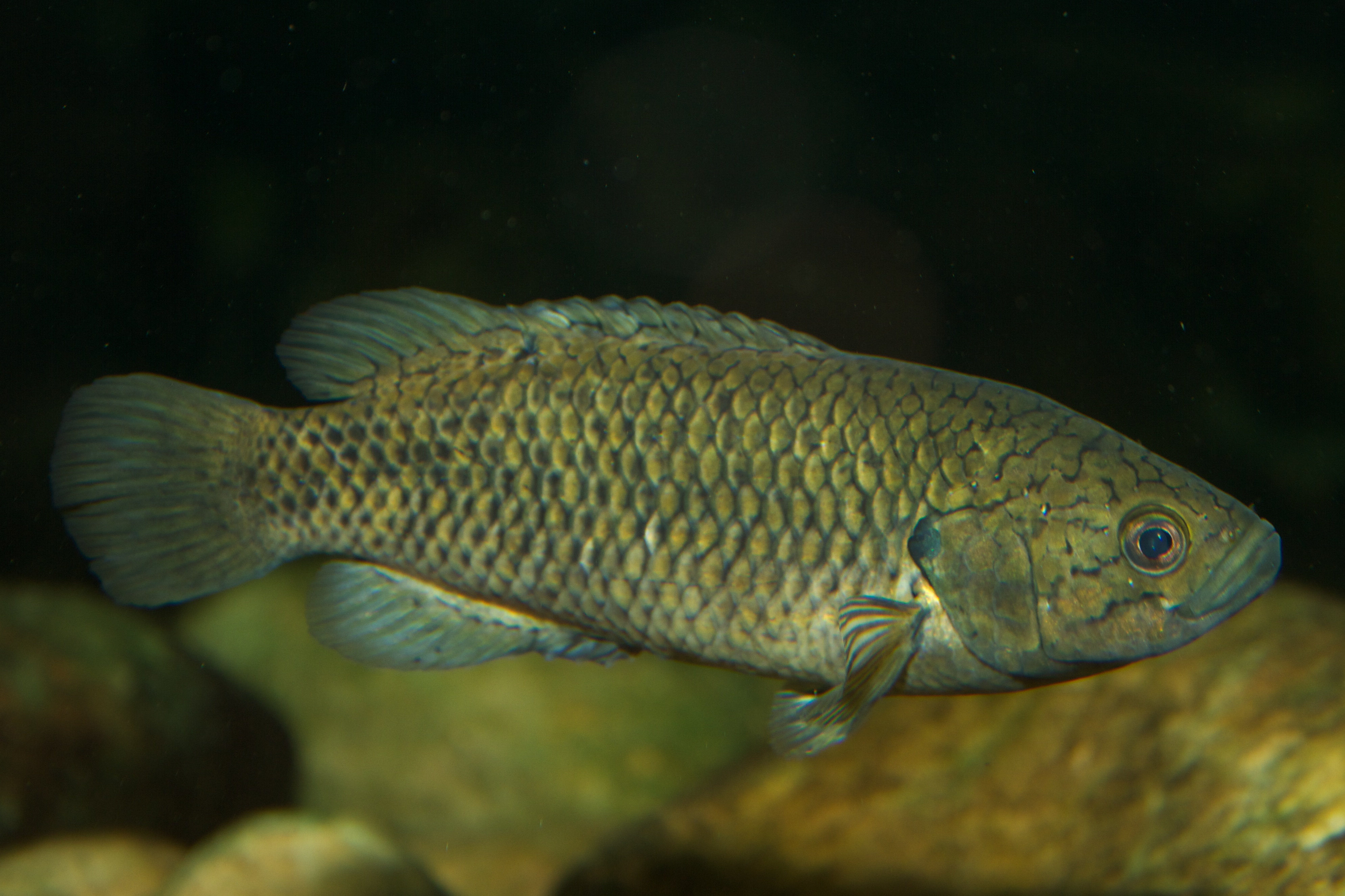 Sandelia capensis in Cape Town, South Africa